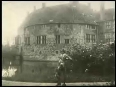 Photo of Murnau´s film "Der Knabe in Blau" (The Boy in Blue)